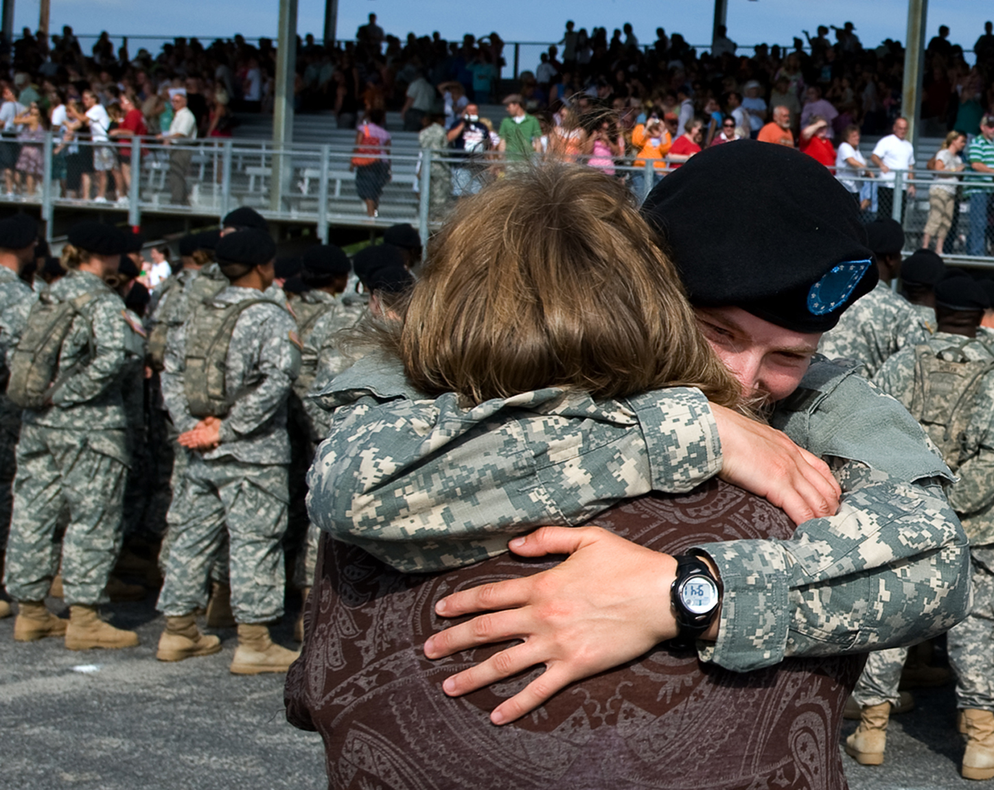 A new Soldier hugs her mother at the conclusion of the basic training ceremony for "Family Day" at Fort Jackson, S.C., July 30, 2009. Family Day is when Soldiers are able to meet with their families for the first time since starting basic training. U.S. Army photo by D. Myles Cullen See more at